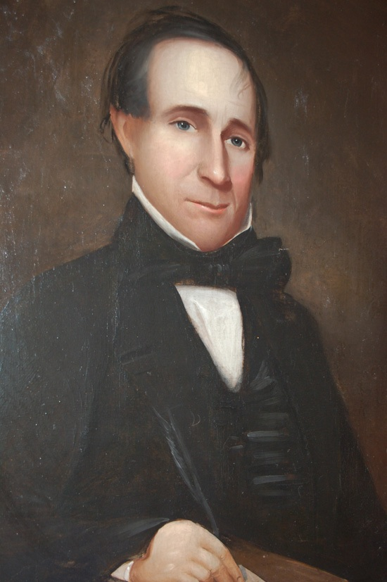 Reuben Robie, Congressman from New York.